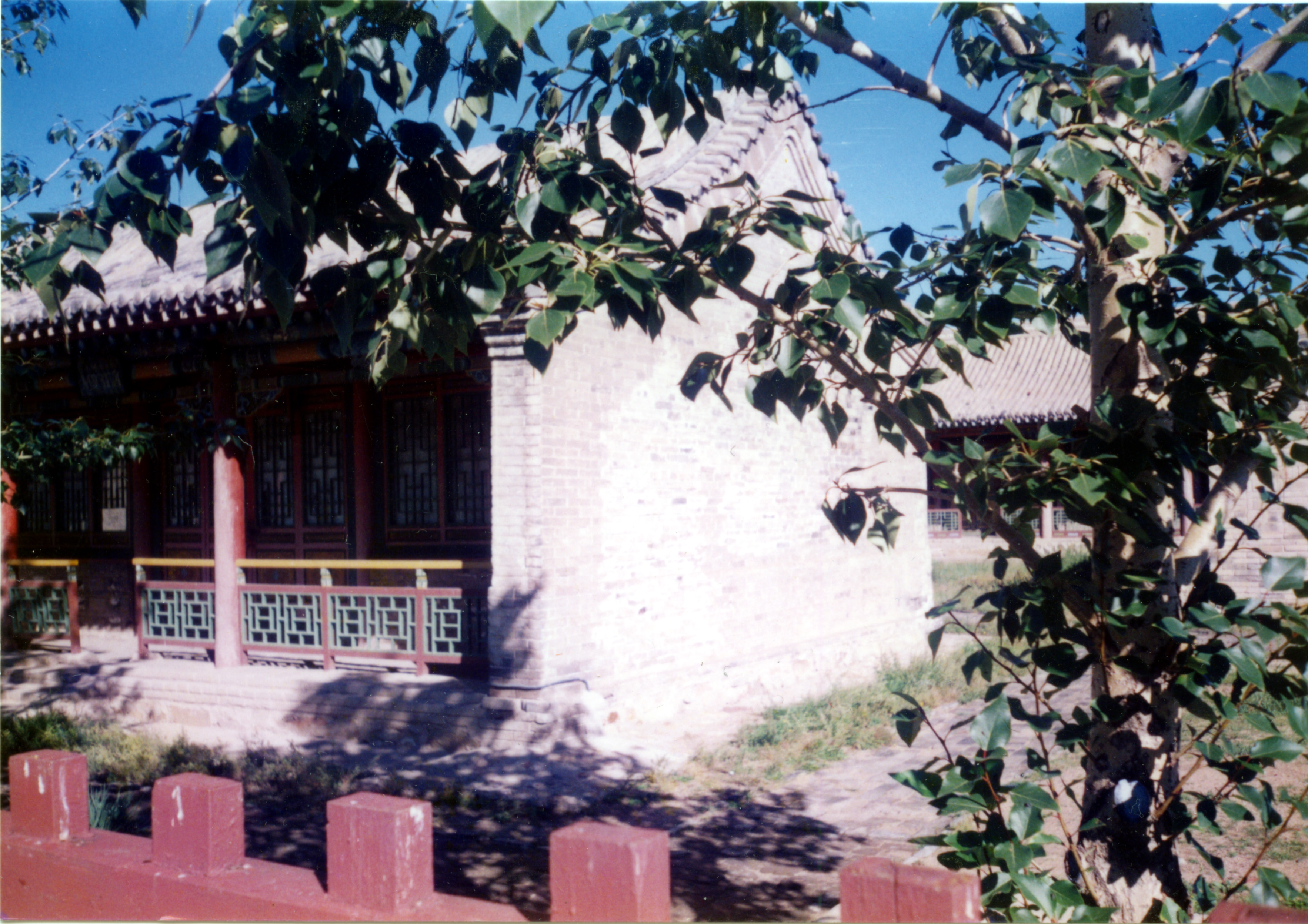 Өндөрхаан town, Хэнтий aimag